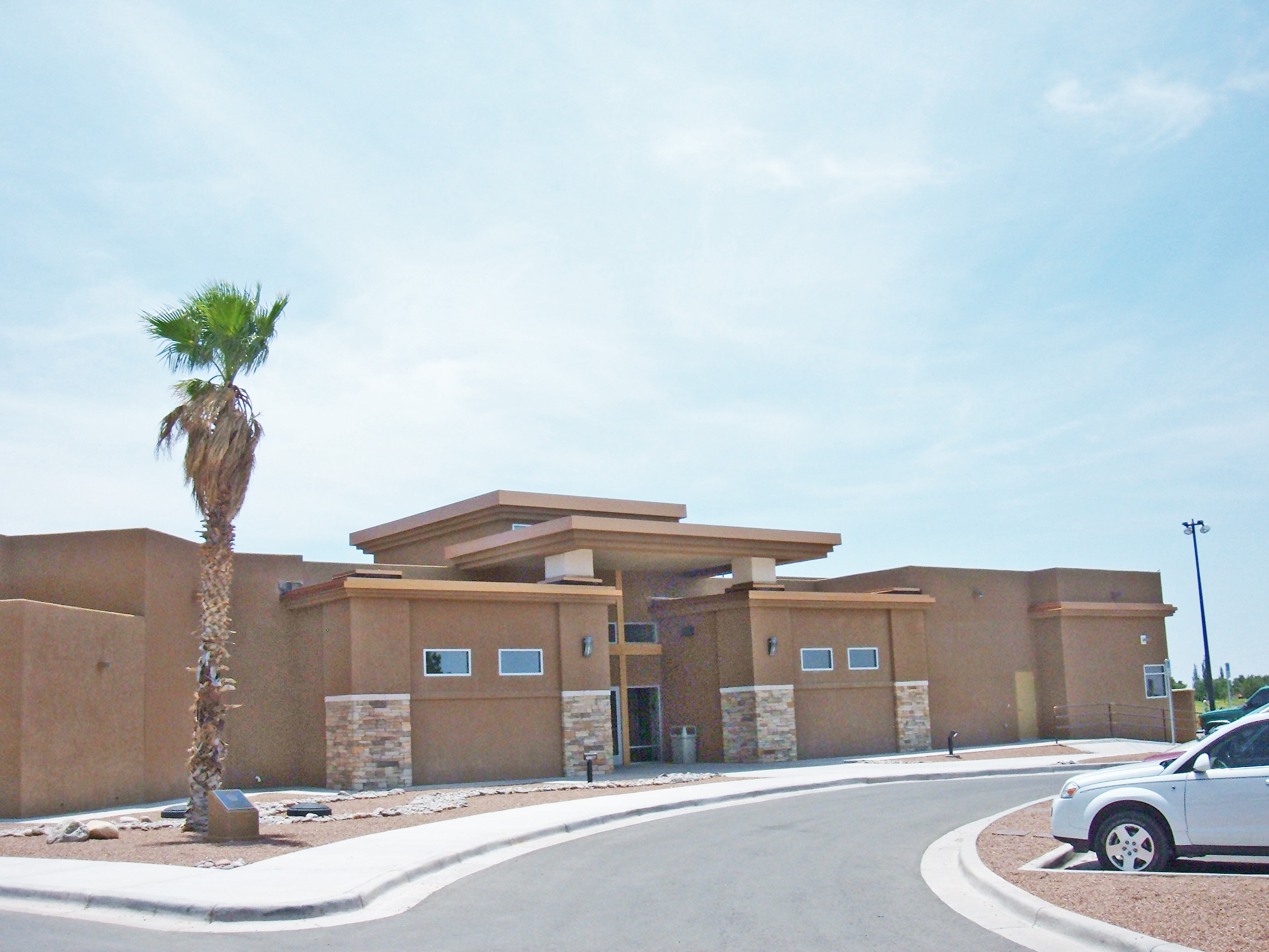 Club house at Desert Lakes Golf Course, a city-owned course in Alamogordo, New Mexico. First opened May 2007.